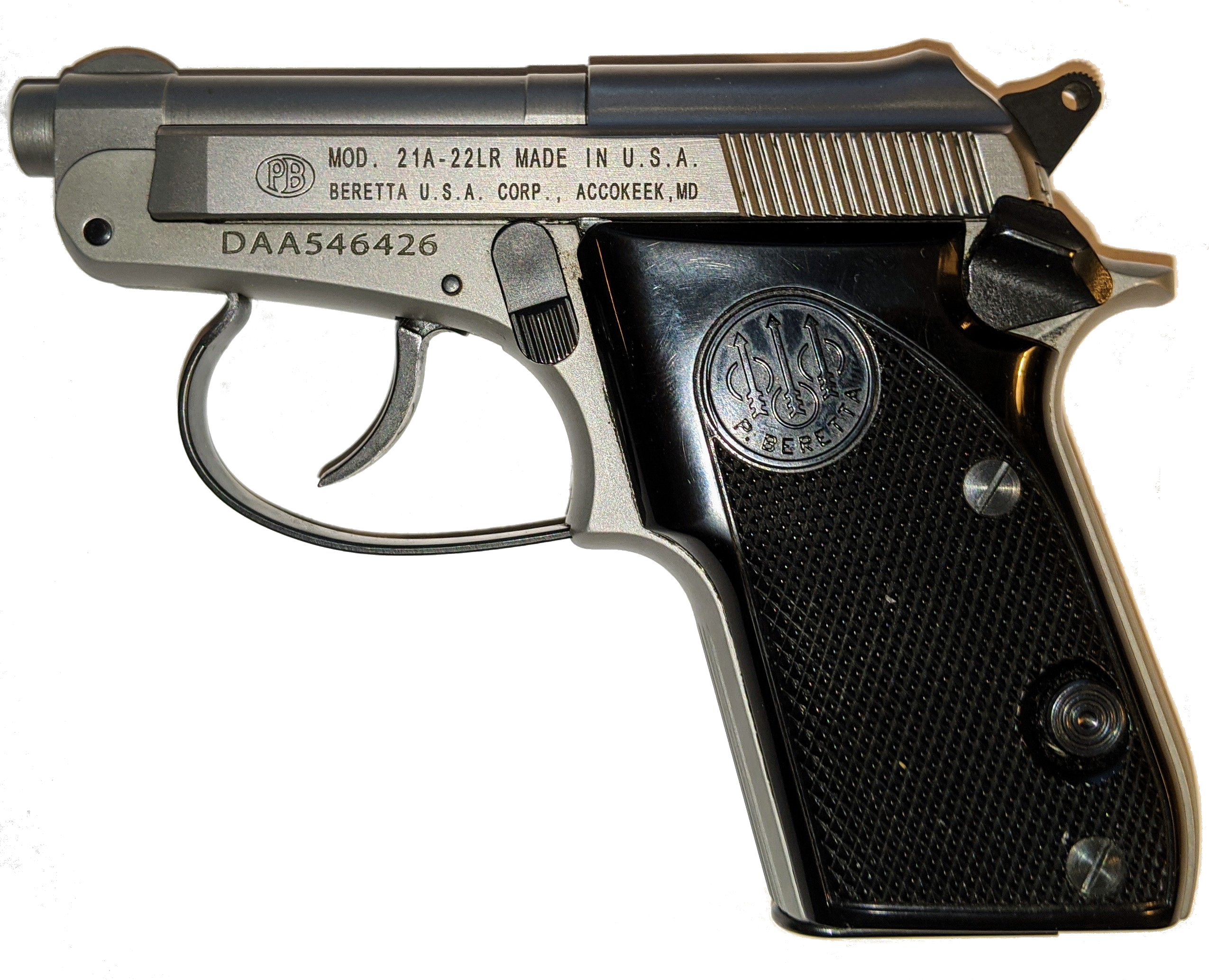 Beretta 21A INOX .22 LR handgun